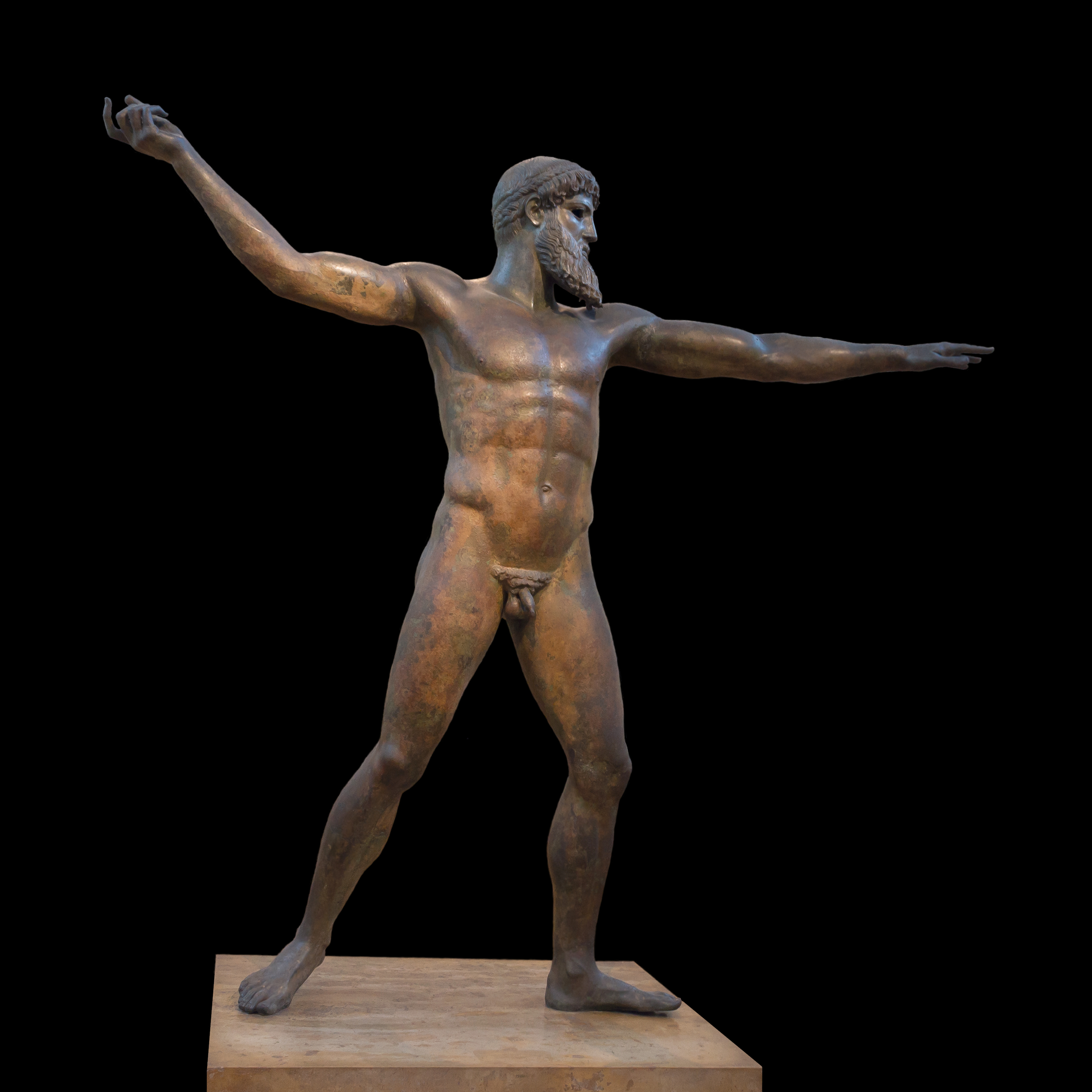 Zeus (or Poseidon). Bronze. 209 cm high. Found in the sea at Cape Artemision, in northern Euboea. One of the few preserved original of Severe Style. Early classical period, ca. 460 BCE. N° X 15161.